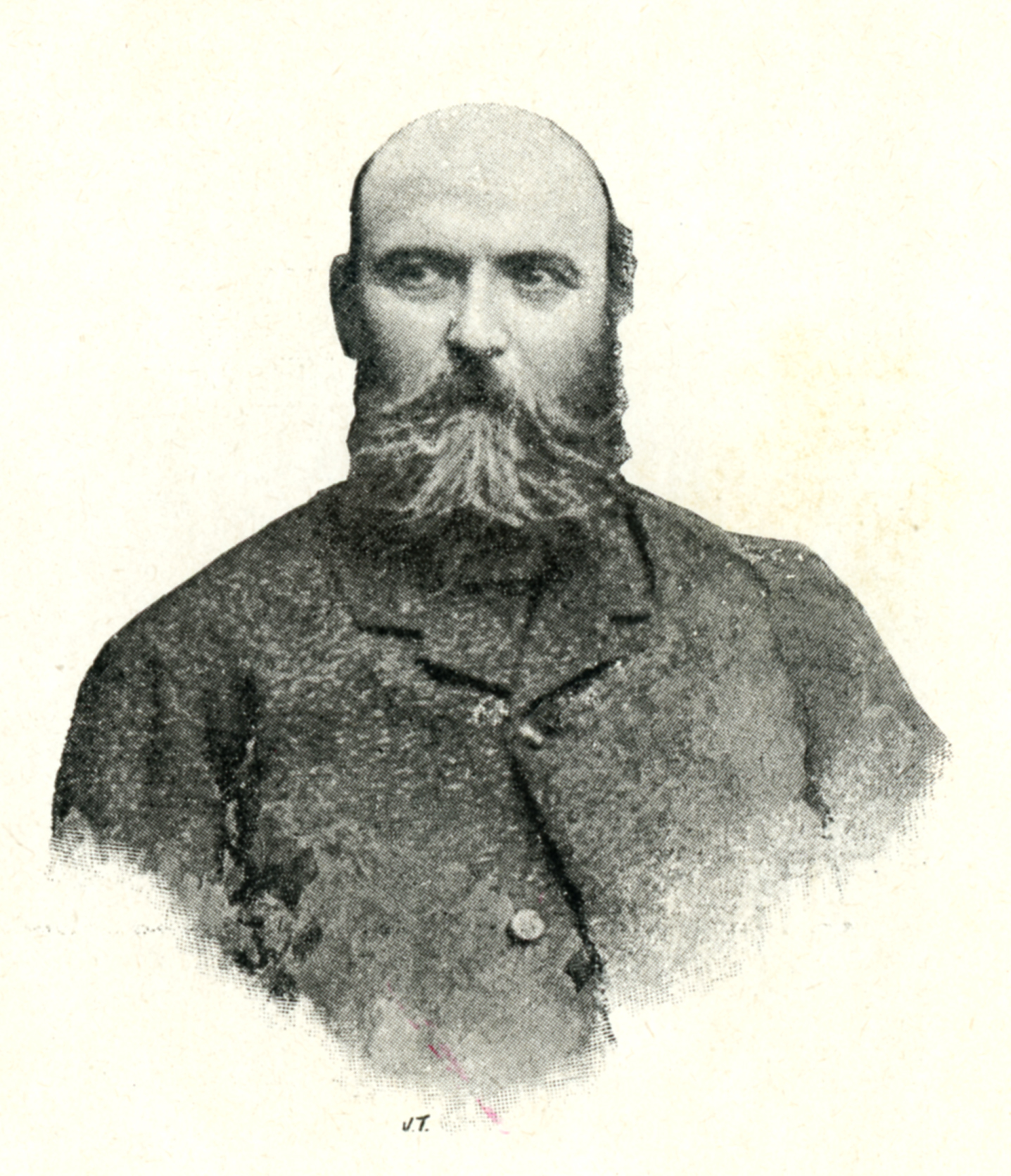 photograph of Italian sculptor Giovanni Scanzi (1840-1915)